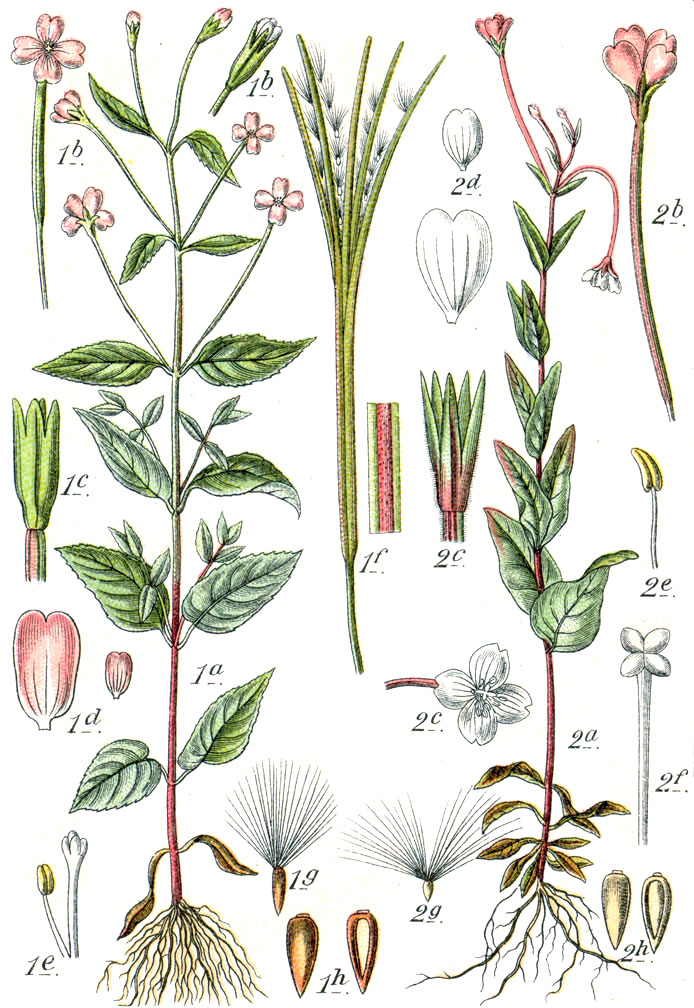 1. Epilobium montanum L. 2. Epilobium montanum L., syn. Epilobium hypericifolium Tausch Original Caption 1. Berg-Weidenröschen, Epilobium montanum 2. Hartheu-Röschen, E. hypericifolium E. hypericifolium is nowadays included in E. montanum. Drawing thus shows two growth forms of the same species.